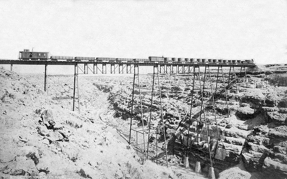 Atchison, Topeka & Santa Fe Railway Company's Canyon Diablo bridge.